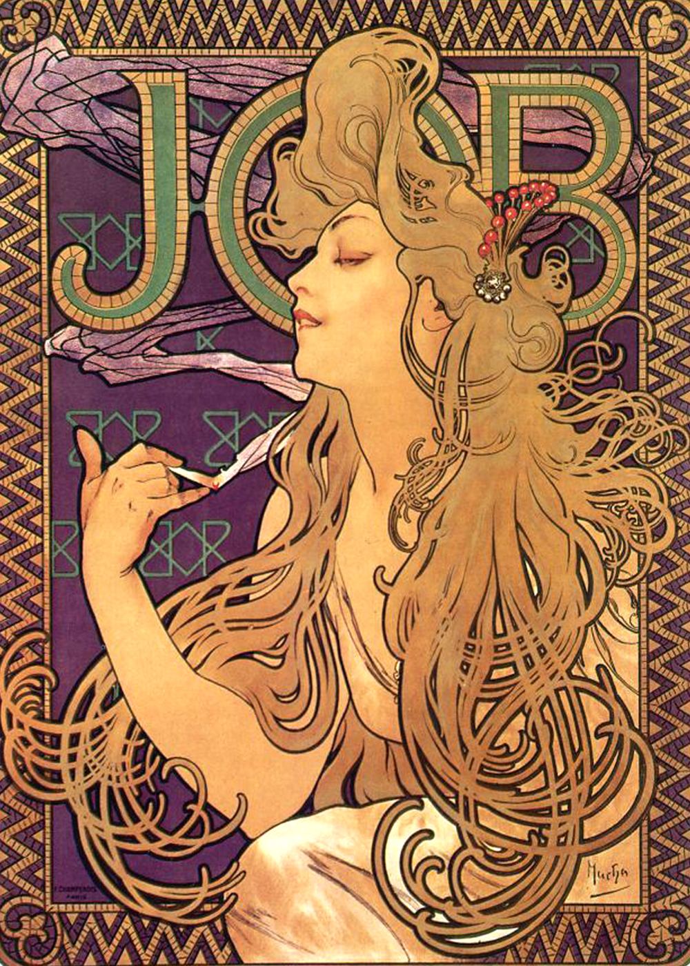 Alphonse Mucha - Job Cigarettes 1